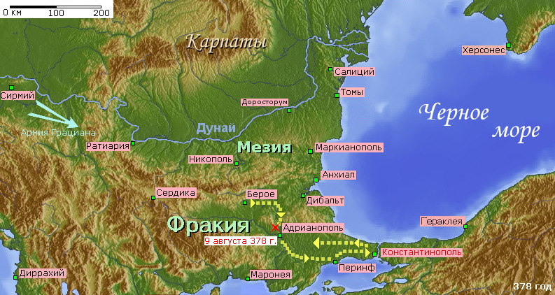 Map of Gothic war (376–382), 3-d stage